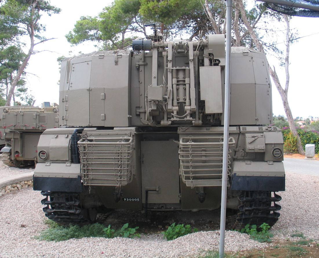 Description: Sholef (aka Slammer) Israeli 155 mm self-propelled howitzer on Merkava tank chassis in Beyt ha-Totchan, Zichron Yaakov, Israel. 2005. Source: Photo by me, User:Bukvoed.